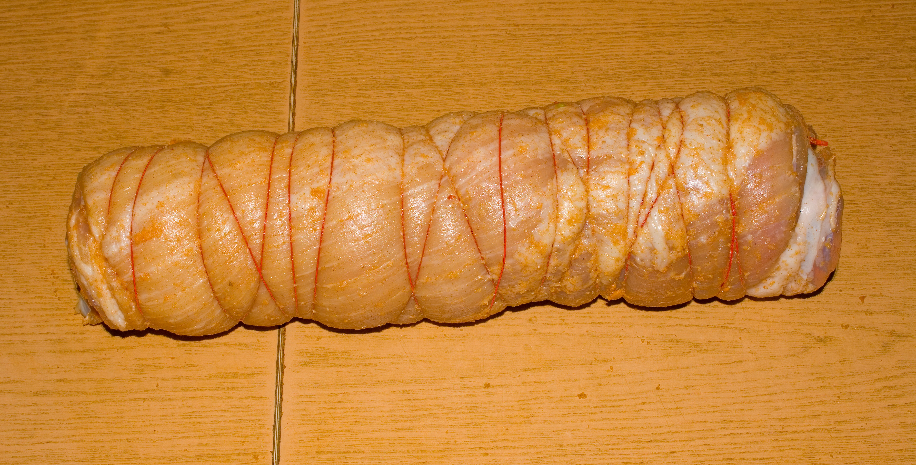 Preparation of boczek, Gniezno, Poland